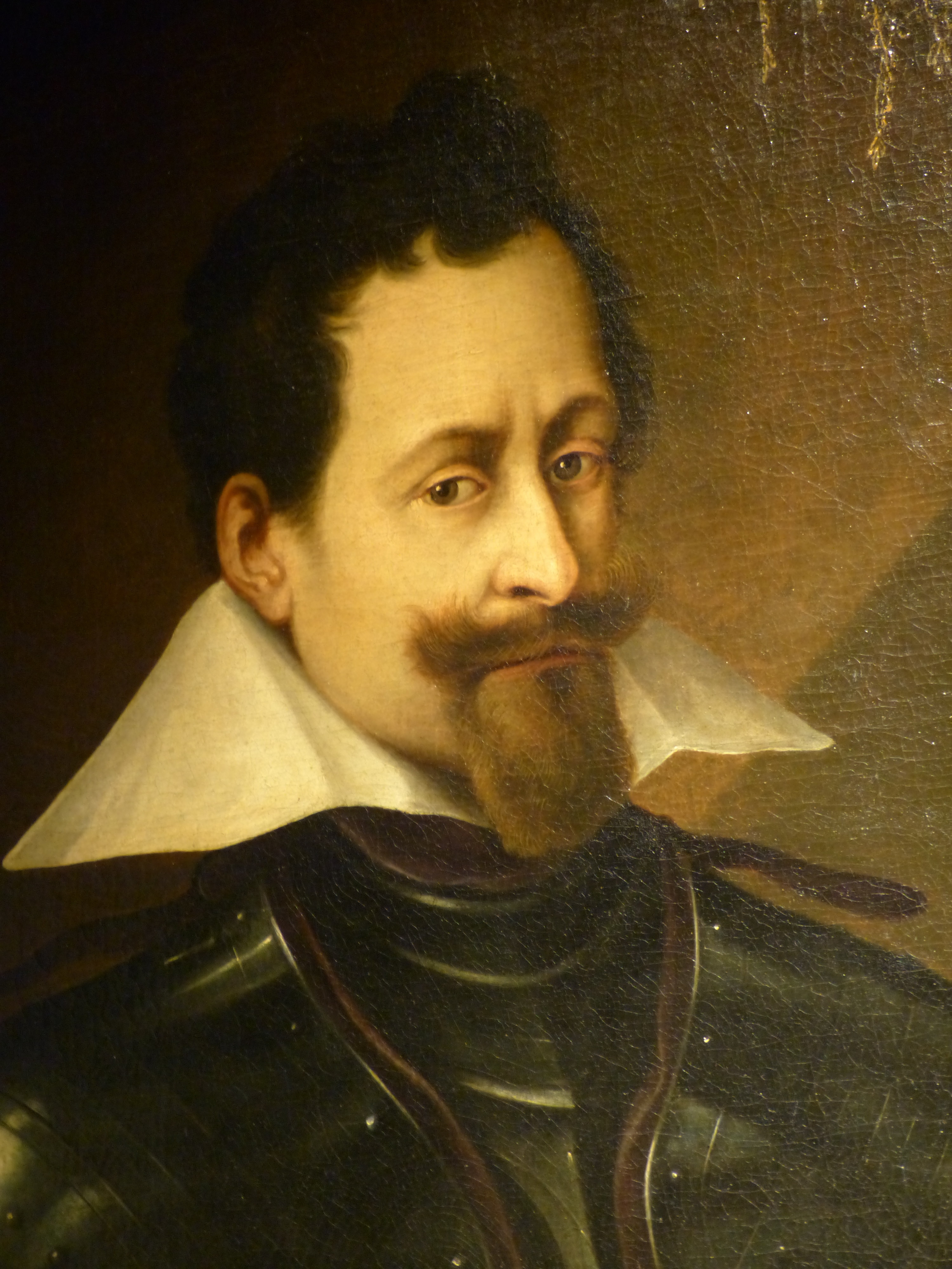 Aldersbach (Lower Bavaria). "Beer in Bavaria" exhibition (2016): Portrait (1598) of Maximilian I, duke of Bavaria